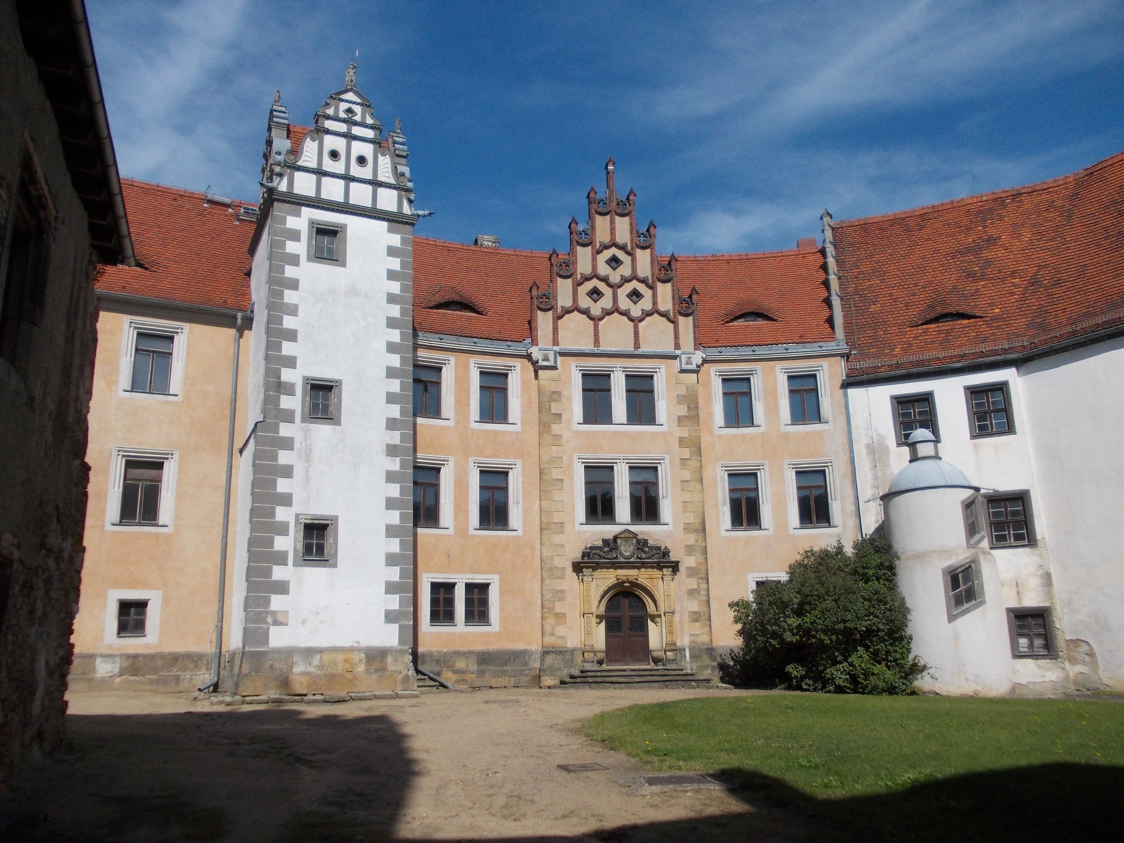 Strehla castle (Meissen district, Saxony)